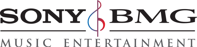 Logo for Sony BMG Music Entertainment